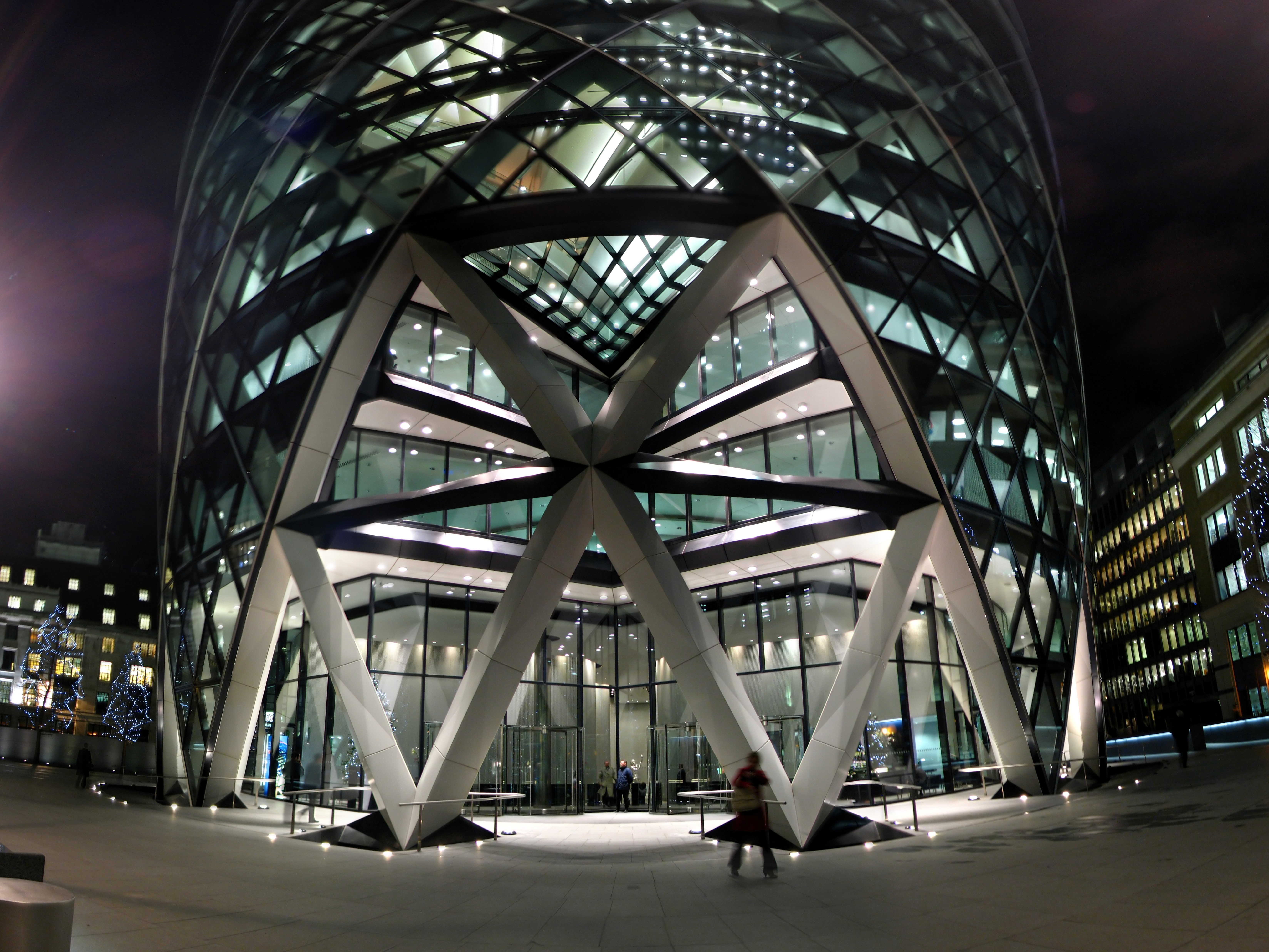 30 St Mary Axe (The Gherkin), London Created from 28 photos using AutoStitch. Noise reduction by Neat Image. Camera: Canon S3 IS